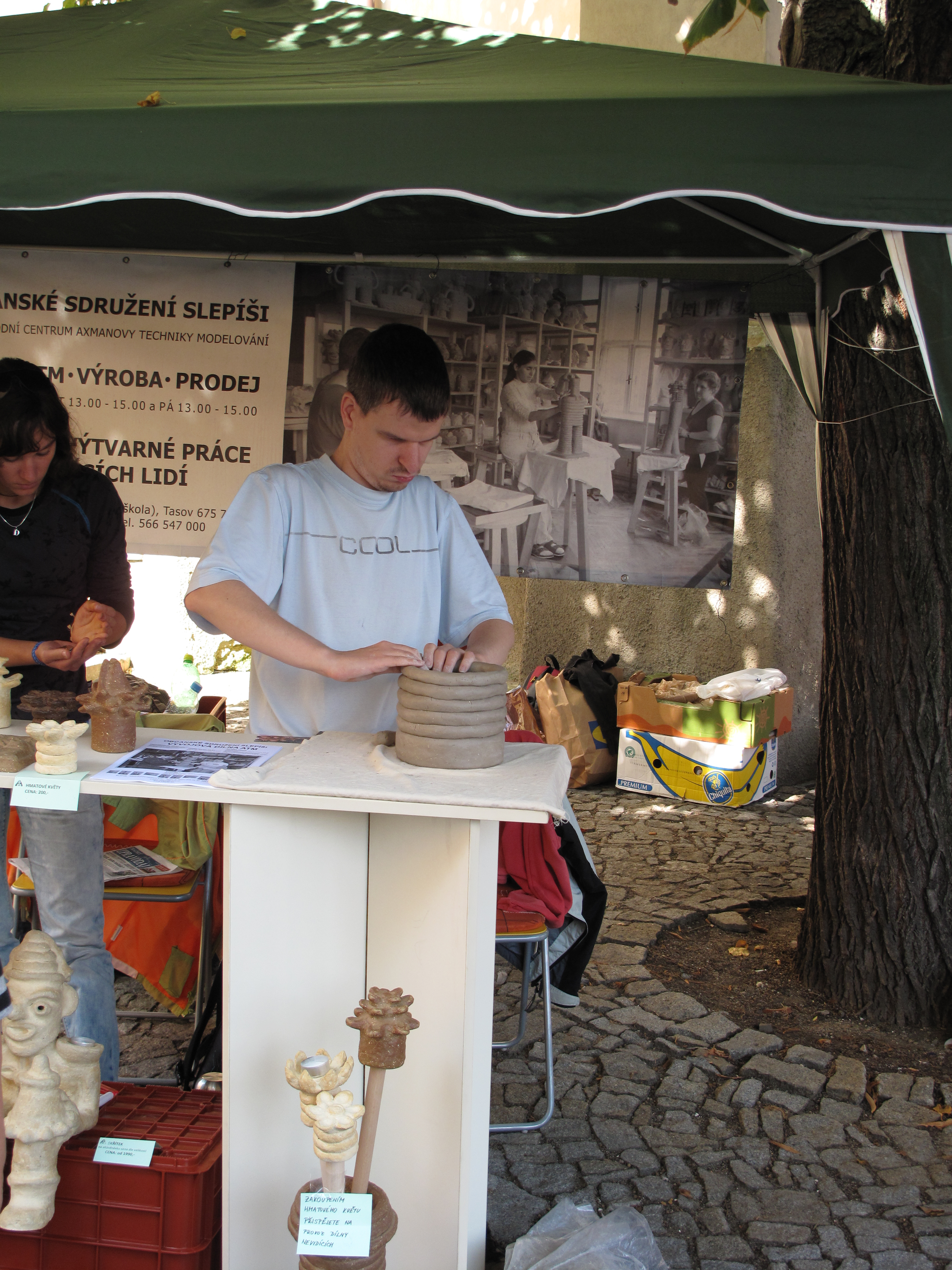 Pottery fair in Beroun in 2011 - Axman way of moulding, Czech Republic.